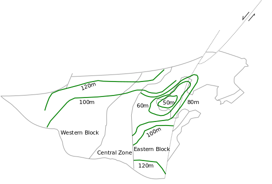 This shows the contour lines of the lithospheric thickness across the North China Craton